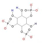 Diagram of the inositol 1,4,5-trisphosphate molecule. The red oxygen atoms and the dark blue hydrogen atom are involved with IP3 binding to its receptor.